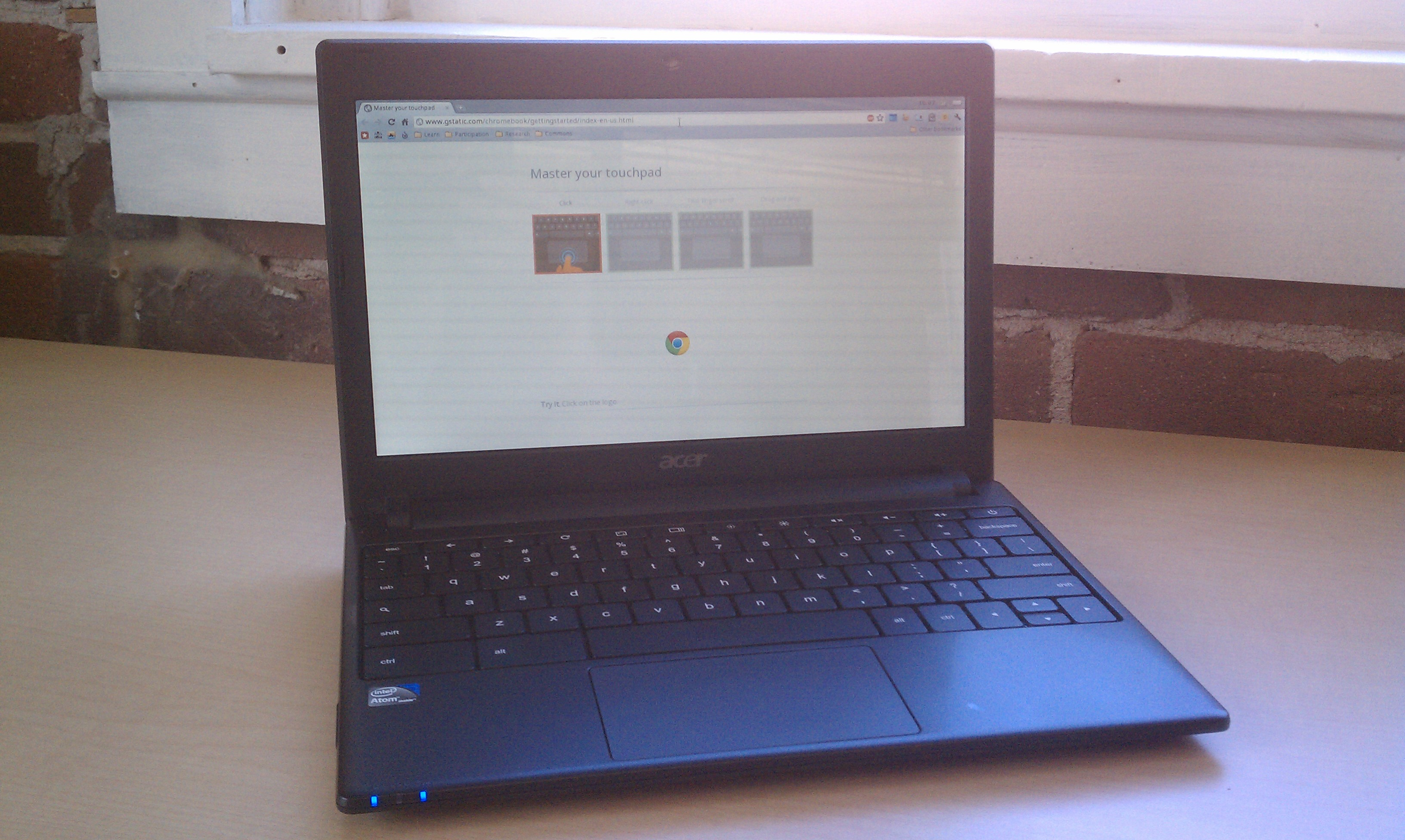 An Acer Chromebook showing the introductory screen walking new users through the touchpad's features.